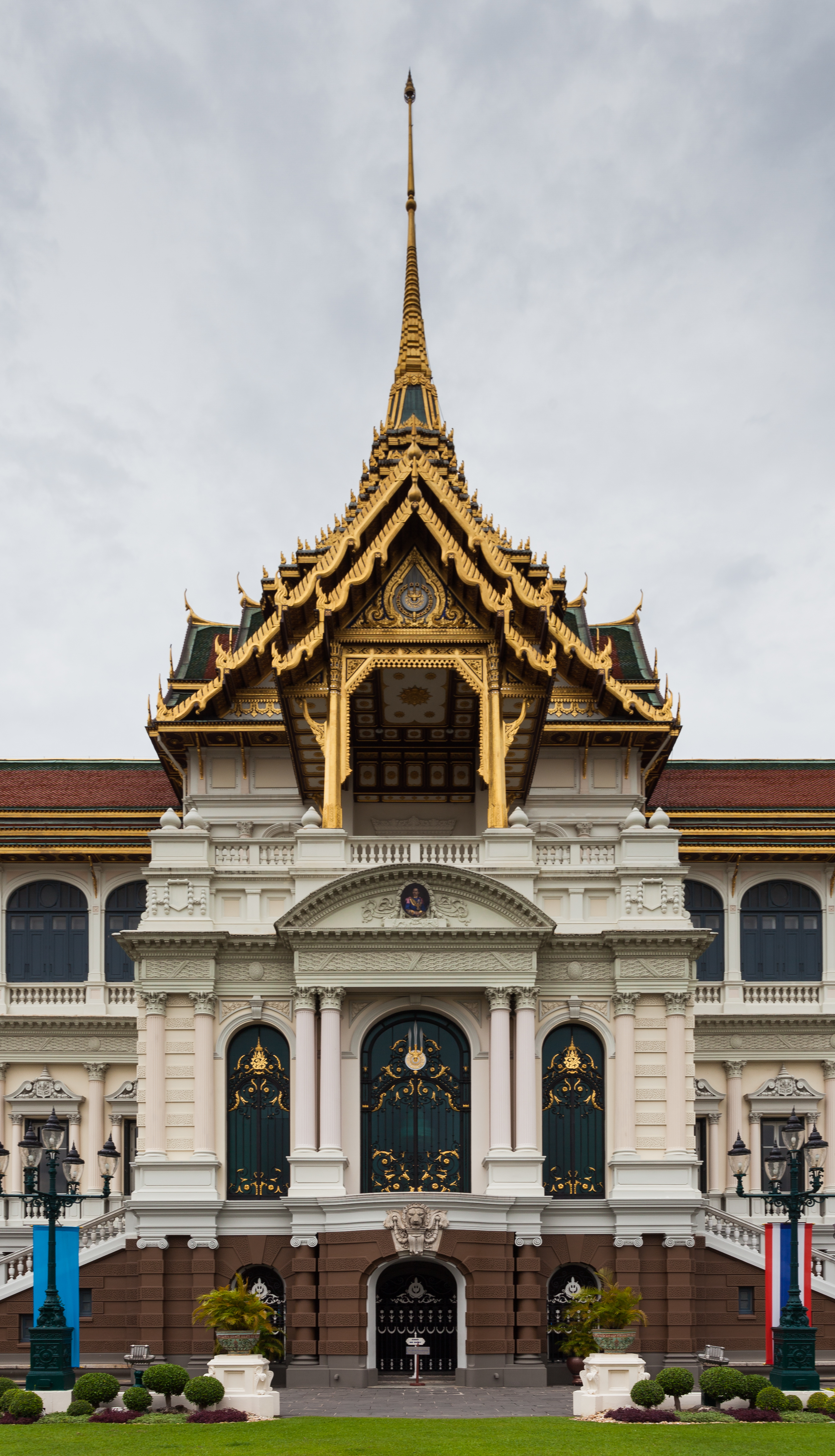 Grand Palace, Bangkok, Thailand